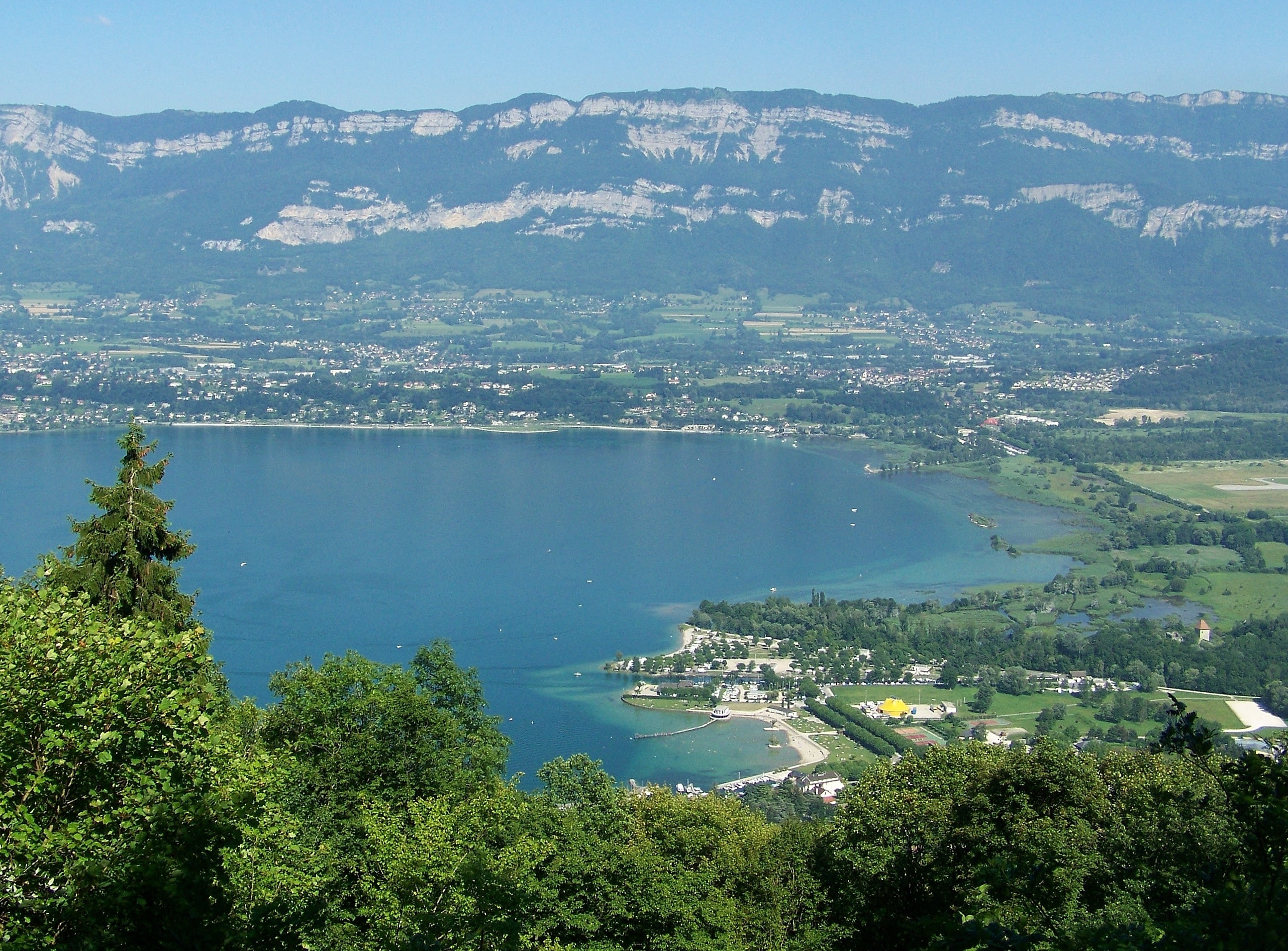 Sight of southern part of lac du Bourget lake, from the heights of le Bourget-du-Lac near Chambéry in Savoie, France.